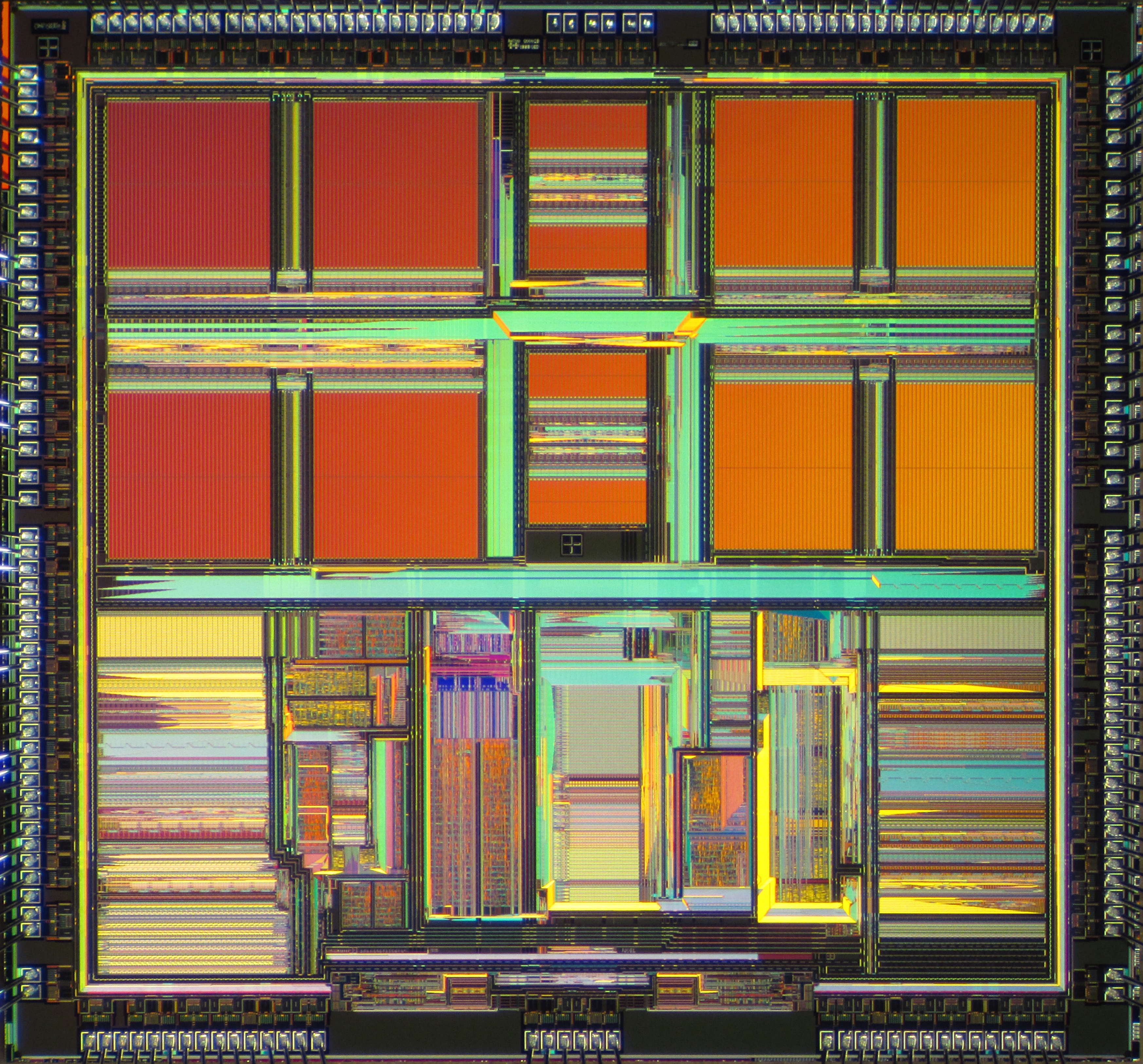 Die shot of IDT RV4700 MIPS microprocessor (79RV4700-150G).